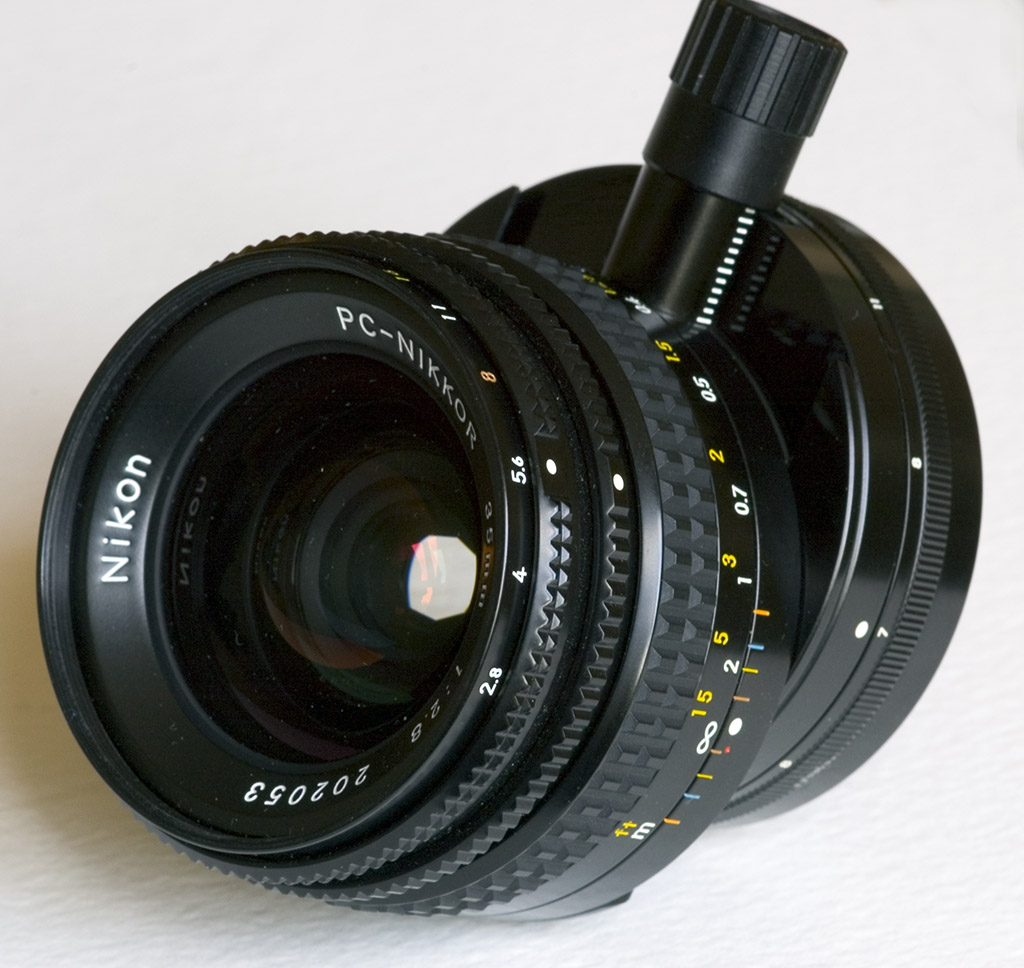 Perspective Control lens made by Nikon Corporation, f/2.8 35mm focal length.